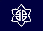 Flag of Shinjo Yamagata